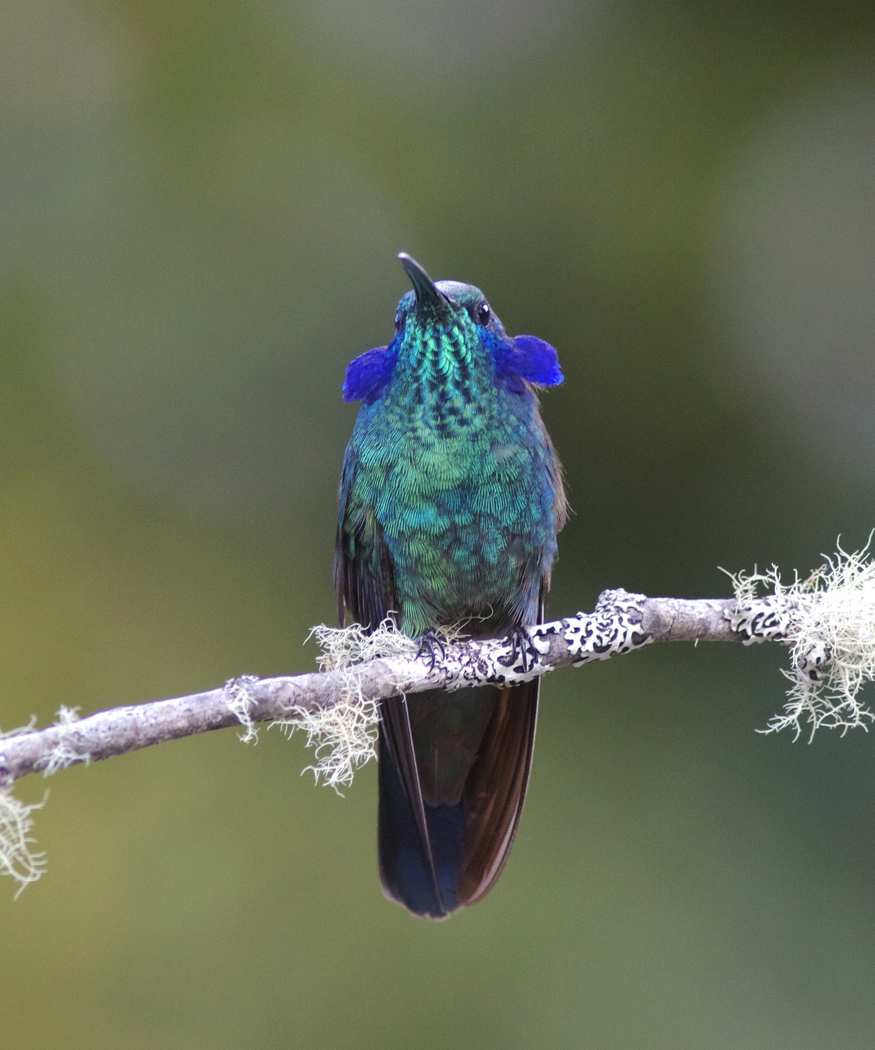 Green Violet-ear photo taken at taken at Savegre Mountain Hotel, Costa Rica.